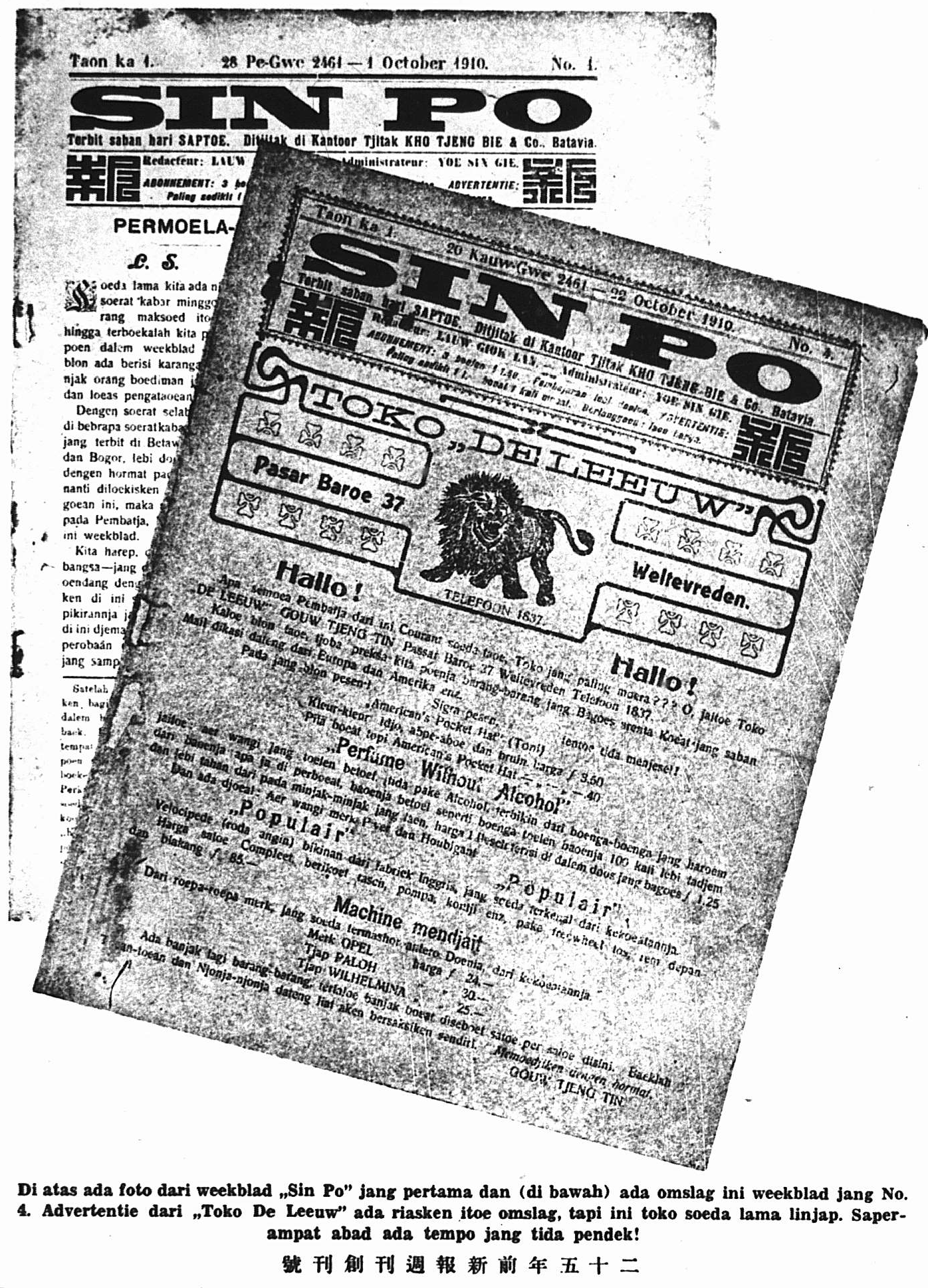 This is an image of issues #1 and #4 of the Malay-language newspaper from the Indies, from October 1910. This photograph was taken from a scanned microfilm of the 25 year retrospective published by Sin Po itself in 1935. (Sin Po Jubileum Nummer 1910–1935; Djakarta: Sin Po, 1935)